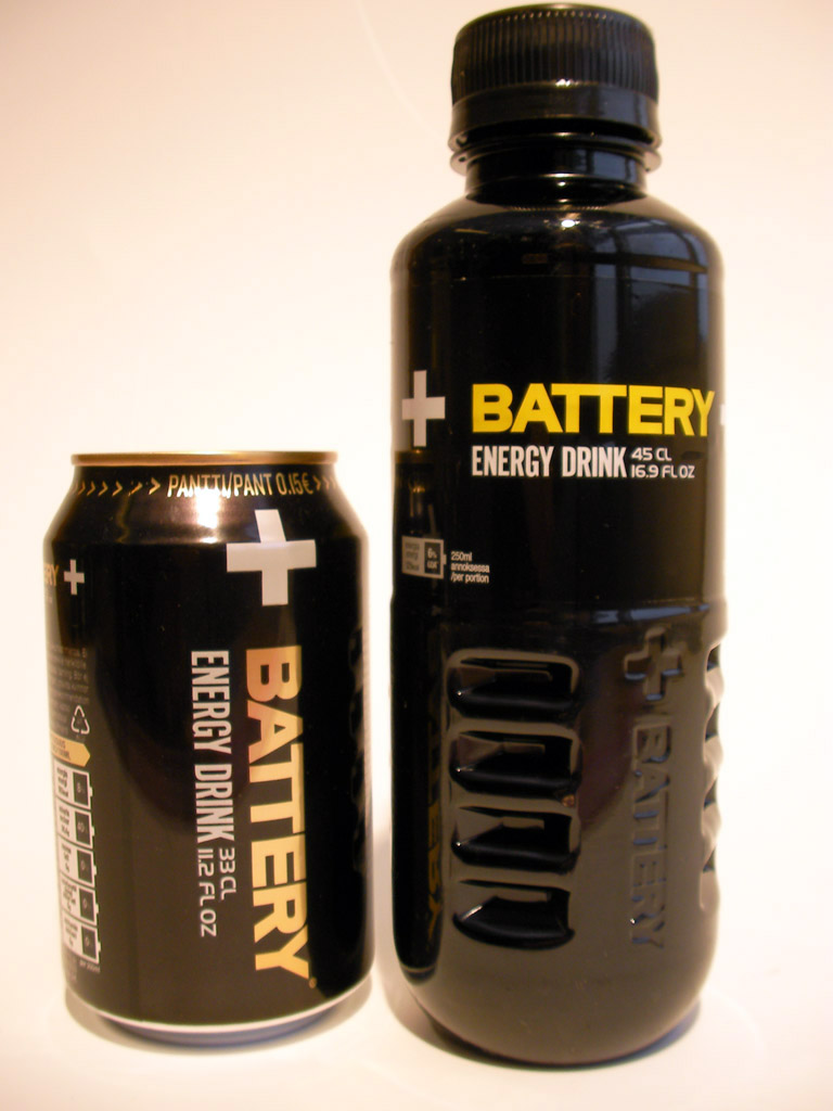 Battery Energy Drink, can 33cl, bottle 45cl